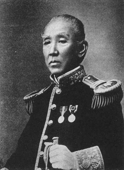 Viscount Taneyuki Tachibana, chancellor of the Gakushuin school.